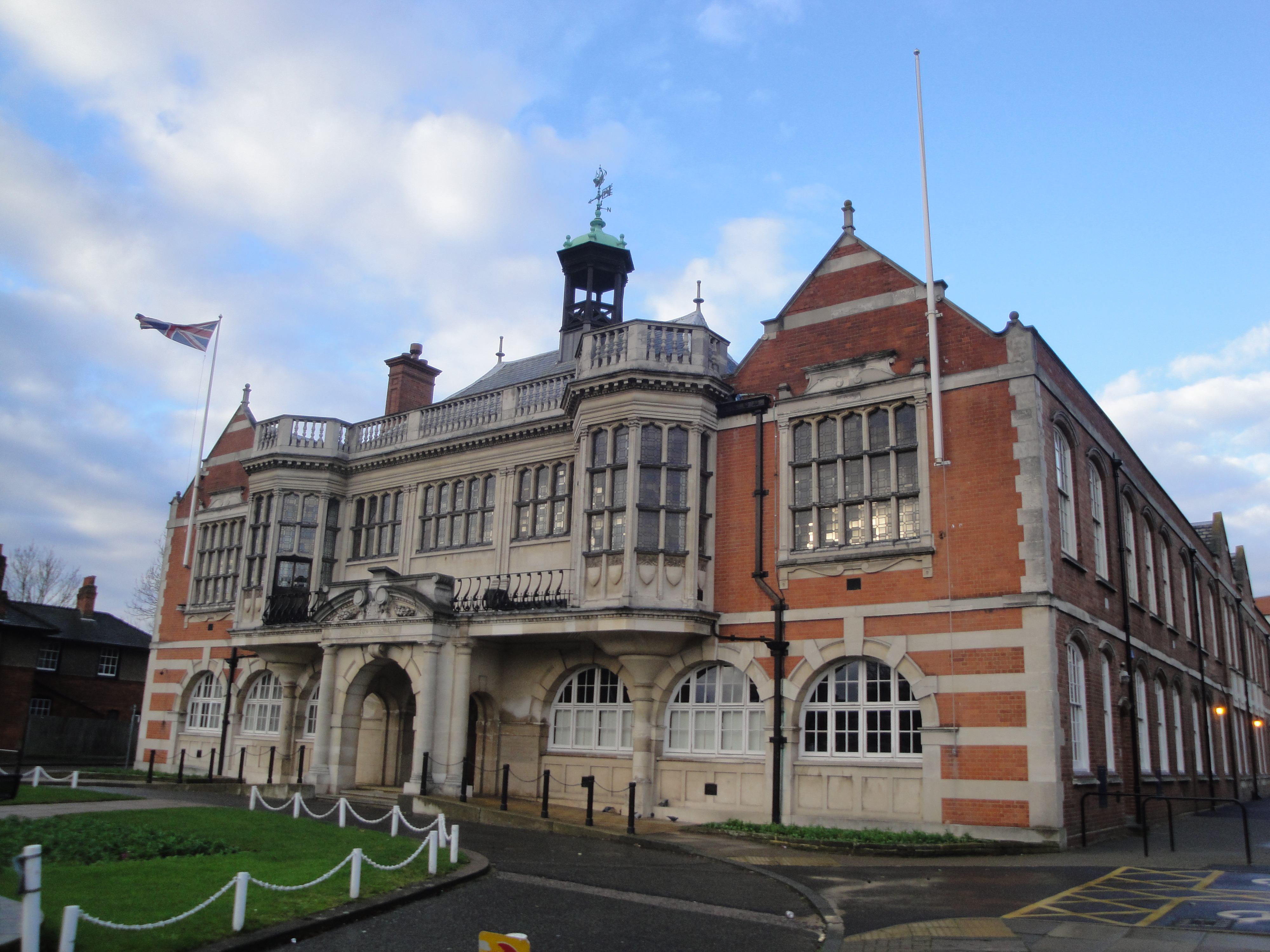 Hendon Town Hall, Barnet (borough), London, seen from The Burroughs in December 2011.